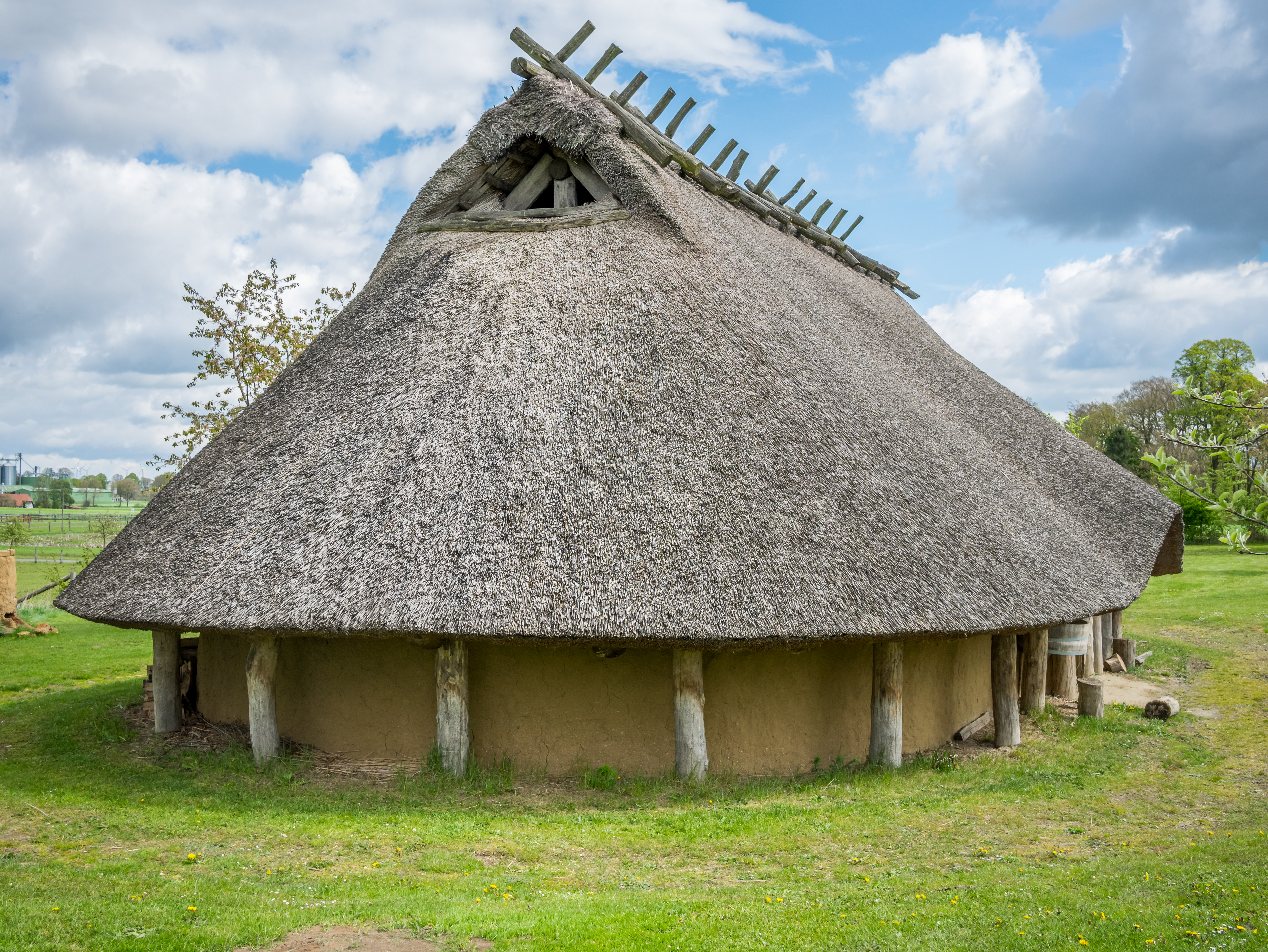 Iron age building in Darpvenne. Ostercappeln, Lower Saxony, Germany